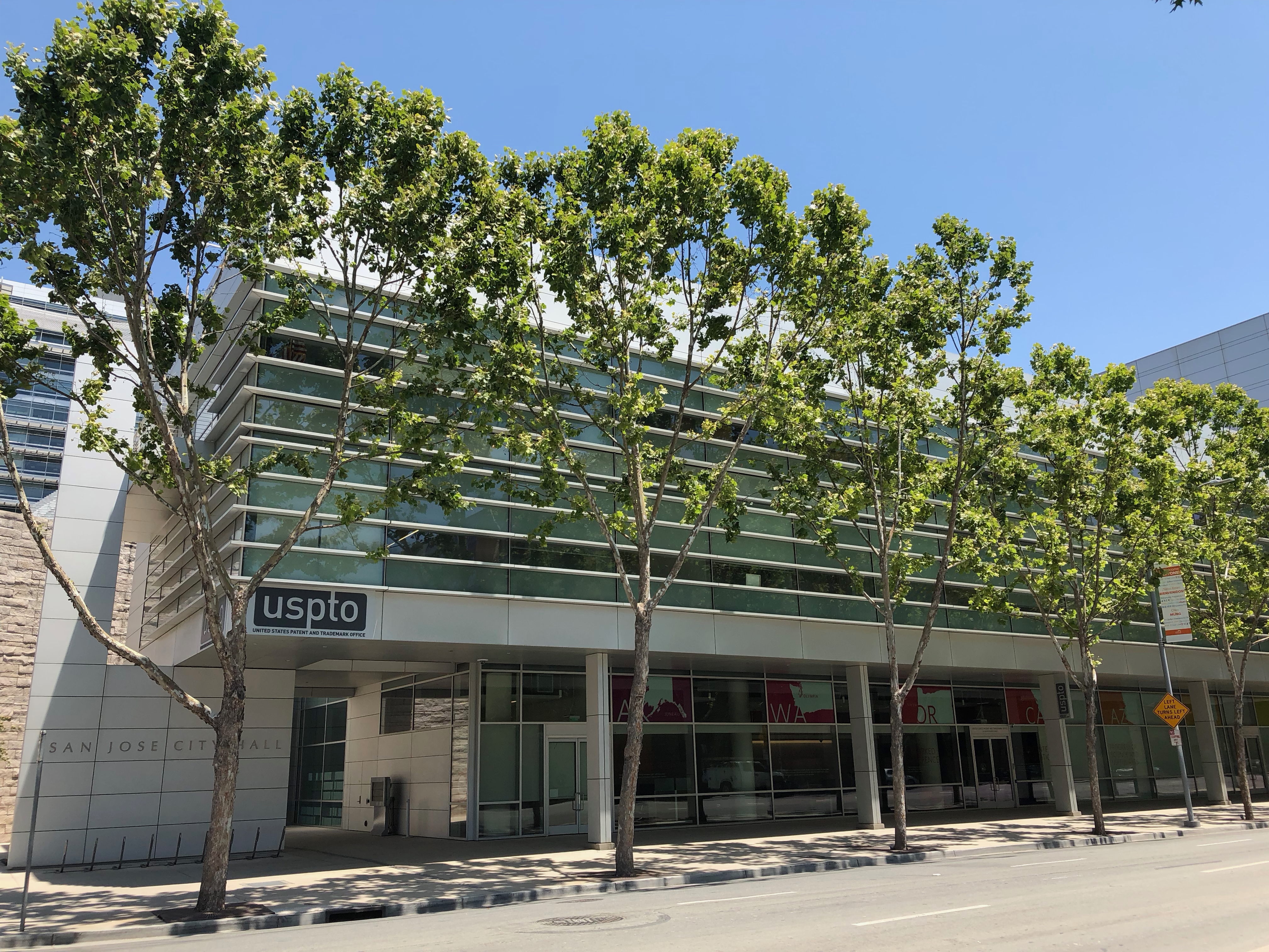 The Silicon Valley regional office of thein the Wing Building of San José City Hall in San Jose, California, United States.